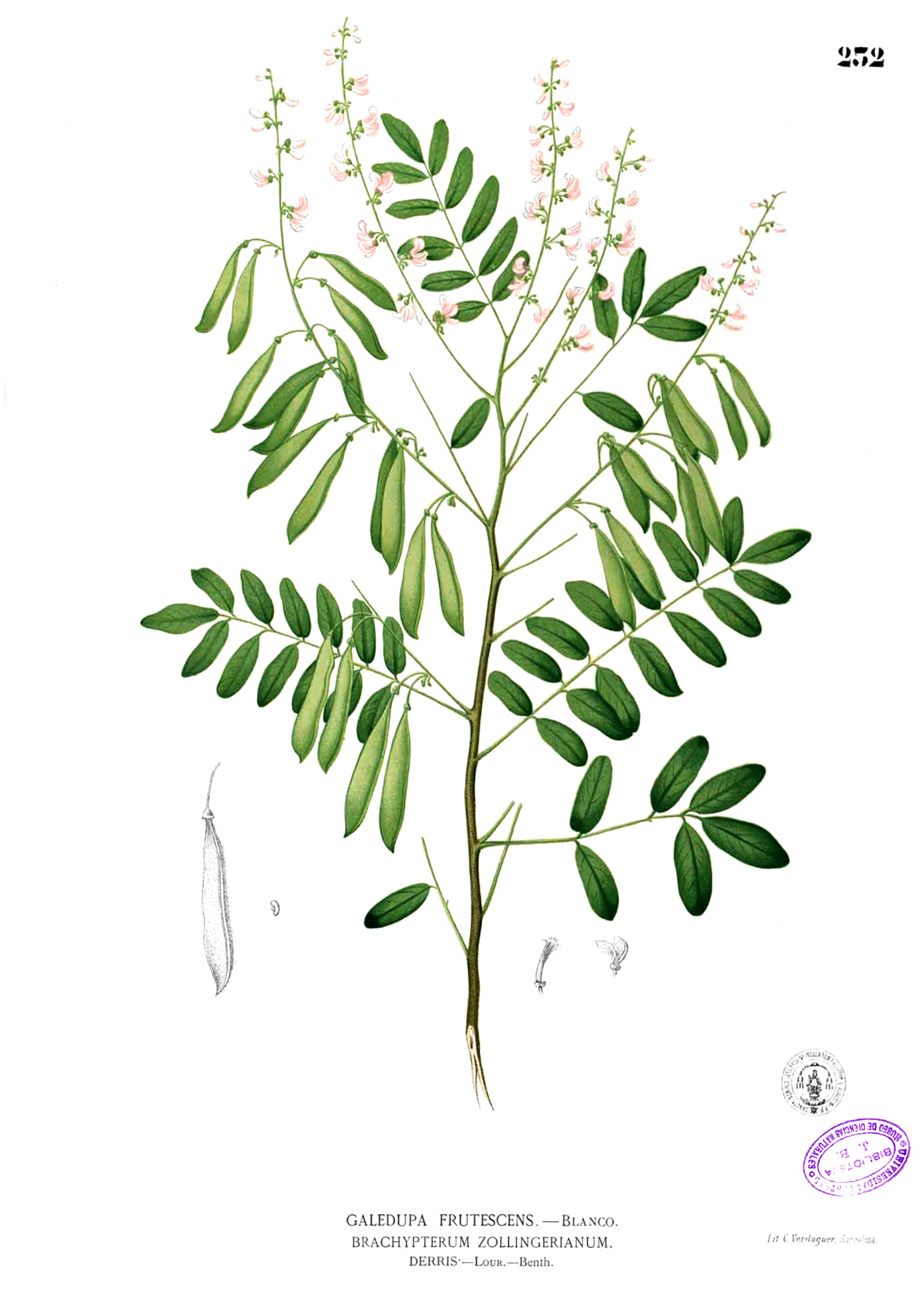 Plate from book